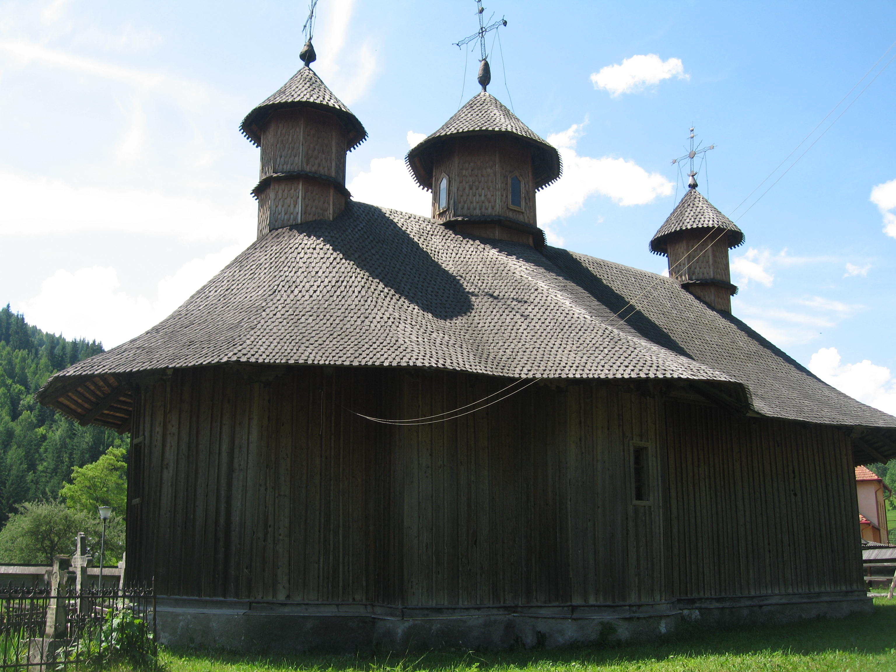 Biserica de lemn din Colacu 01